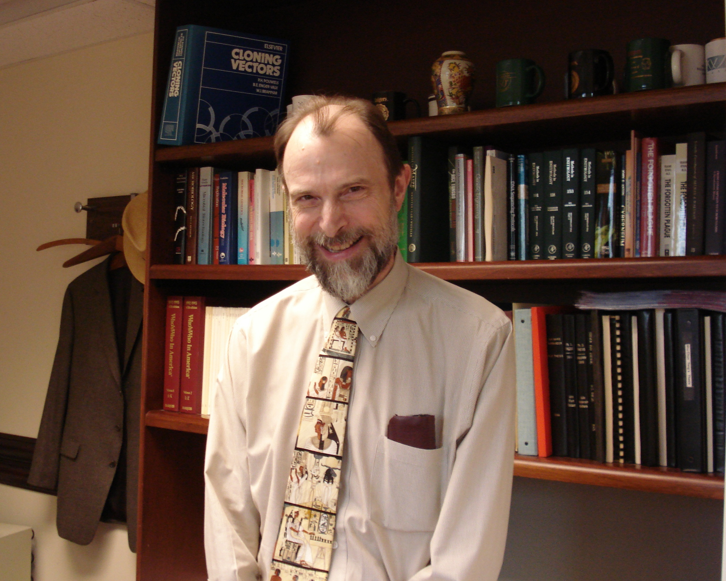 Prof Joachim Messing, August 2008